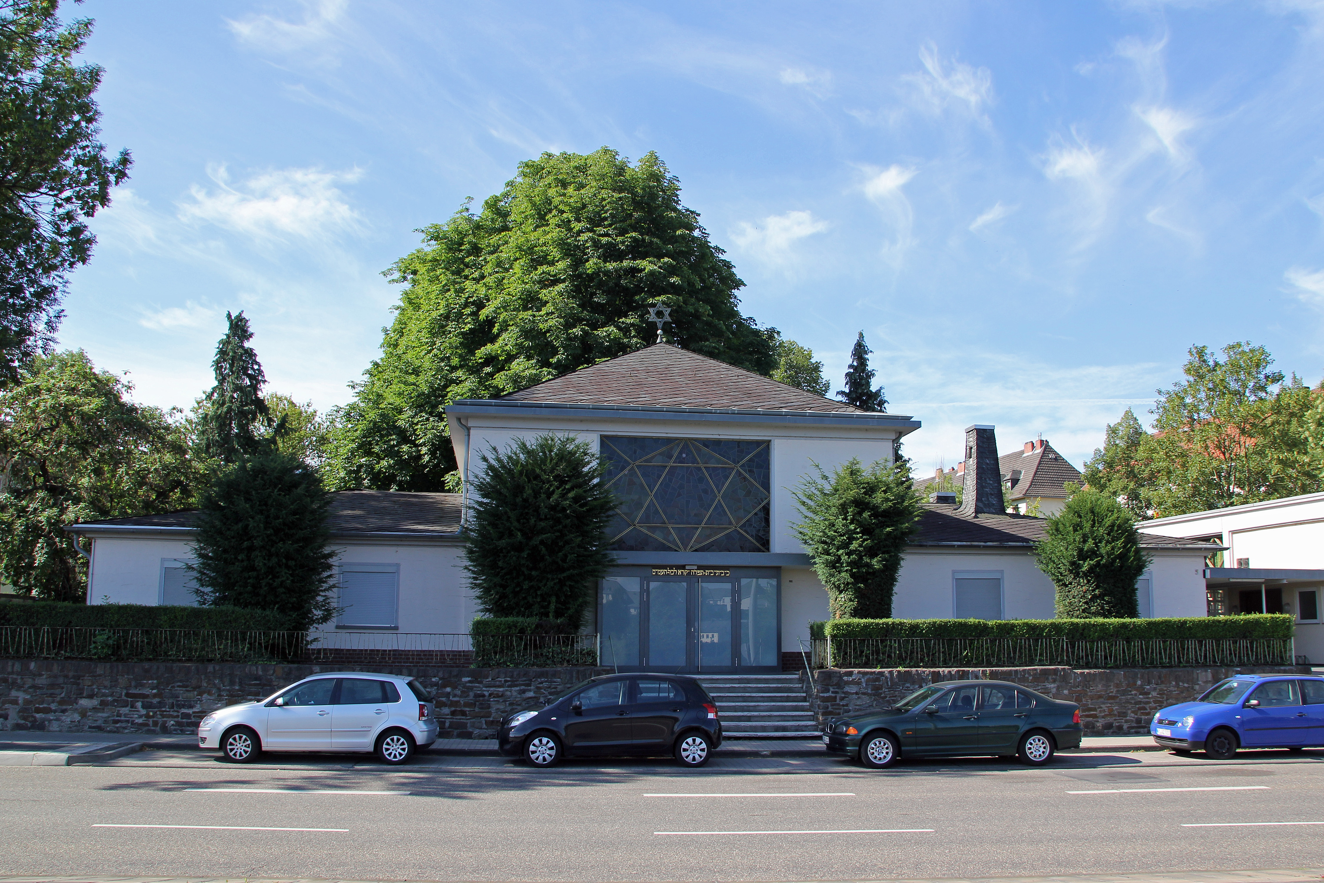 Synagogue in Koblenz